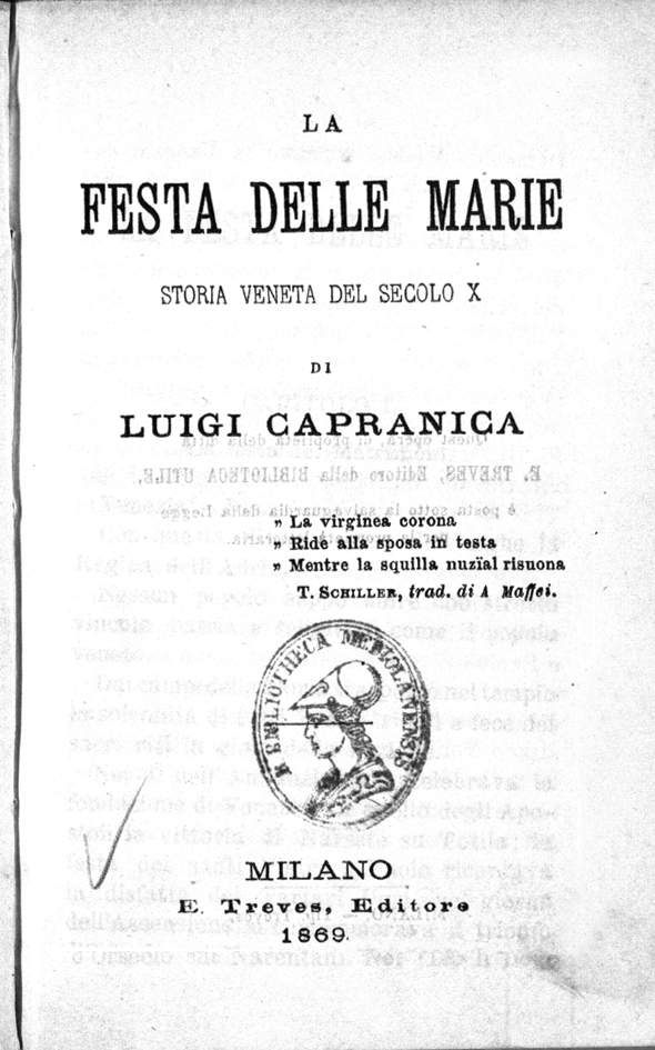 La festa delle Marie